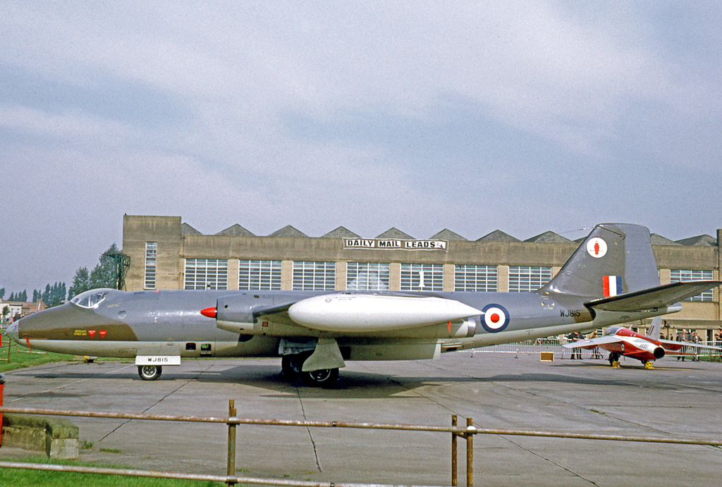 English Electra Canberra PR.7 WJ815 of 58 Squadron RAF based a RAF Wyton. At RAF Finningley in 1969.